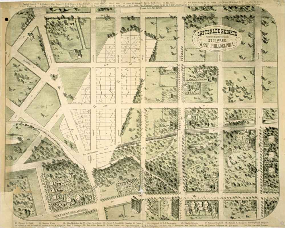 An illustration of existing and proposed uses of land in West Philadelphia, produced around 1869 by real estate developers who sought to sell plots of land on the site of the Union's Satterlee Civil War hospital. Drawn with the west at the top, the map shows (at bottom left) the area that will become Clark Park. It also shows the part of Mill Creek that was then above ground; the entirety was ultimately buried. This image, now in the public domain due to its age, was originally supplied by the Library Company of Philadelphia to Matthew Grubel, who posted it as part of a work called "The Building of West Philadelphia" (